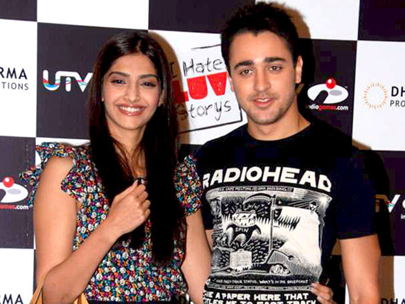 Imran Khan with Sonam Kapoor at a promotional event for I Hate Luv Storys in 2010